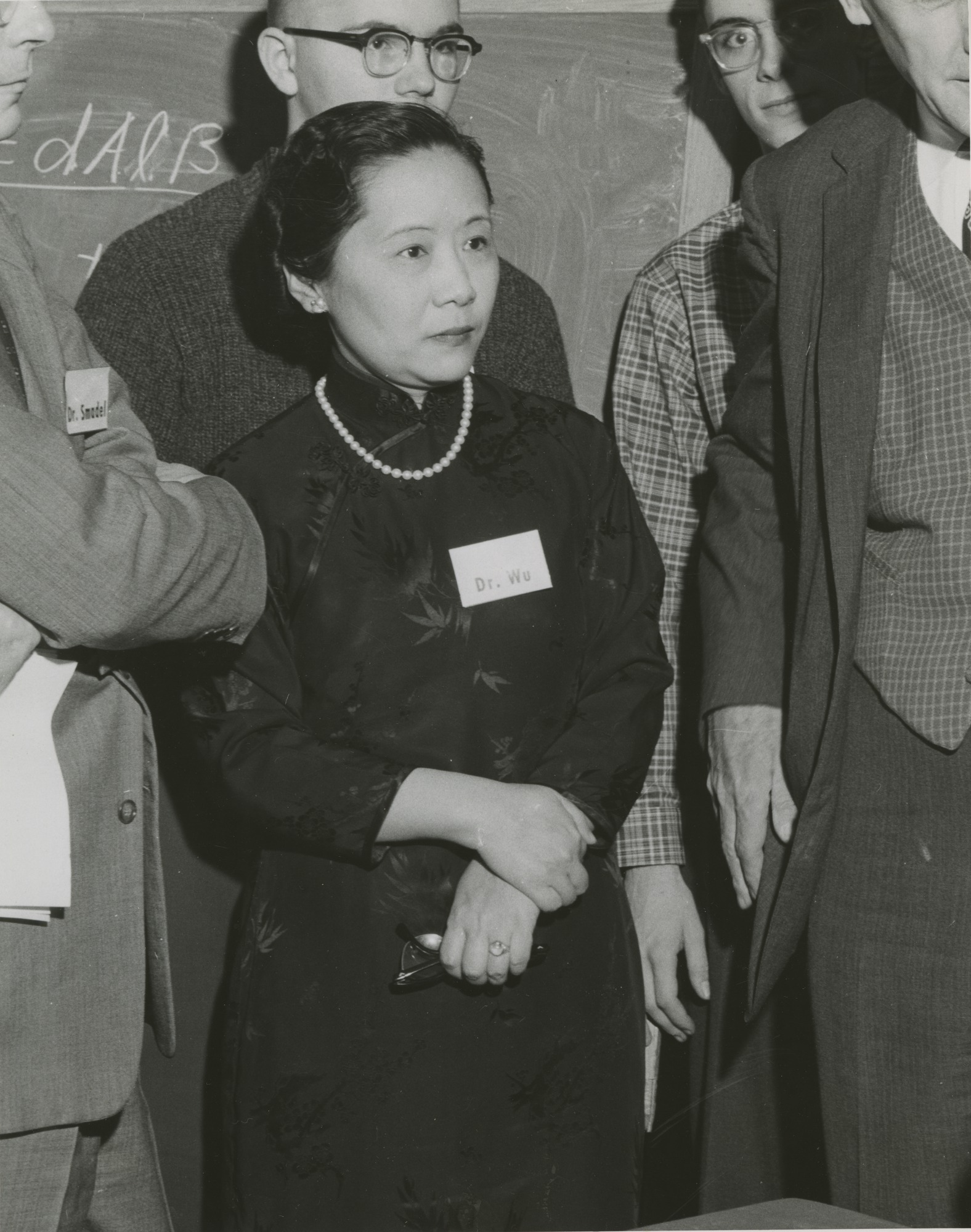 Subject: Wu, C. S (Chien-shiung) 1912-1997 Columbia University Type: Black-and-white photographs Date: 1958 Topic: Physics Women scientists Science fairs Local number: SIA Acc. 90-105 [SIA2010-1511] Summary: Chien-Shiung Wu (1912-1997), professor of physics at Columbia University, shown with a "Dr. Brode" (probably Wallace Brode) and a group of Science Talent Search winners, 1958. Most of the other people are cropped out Cite as: Acc. 90-105 - Science Service, Records, 1920s-1970s, Smithsonian Institution Archivess Persistent URL:Link to data base record Repository:Smithsonian Institution Archives View more collections from the Smithsonian Institution.